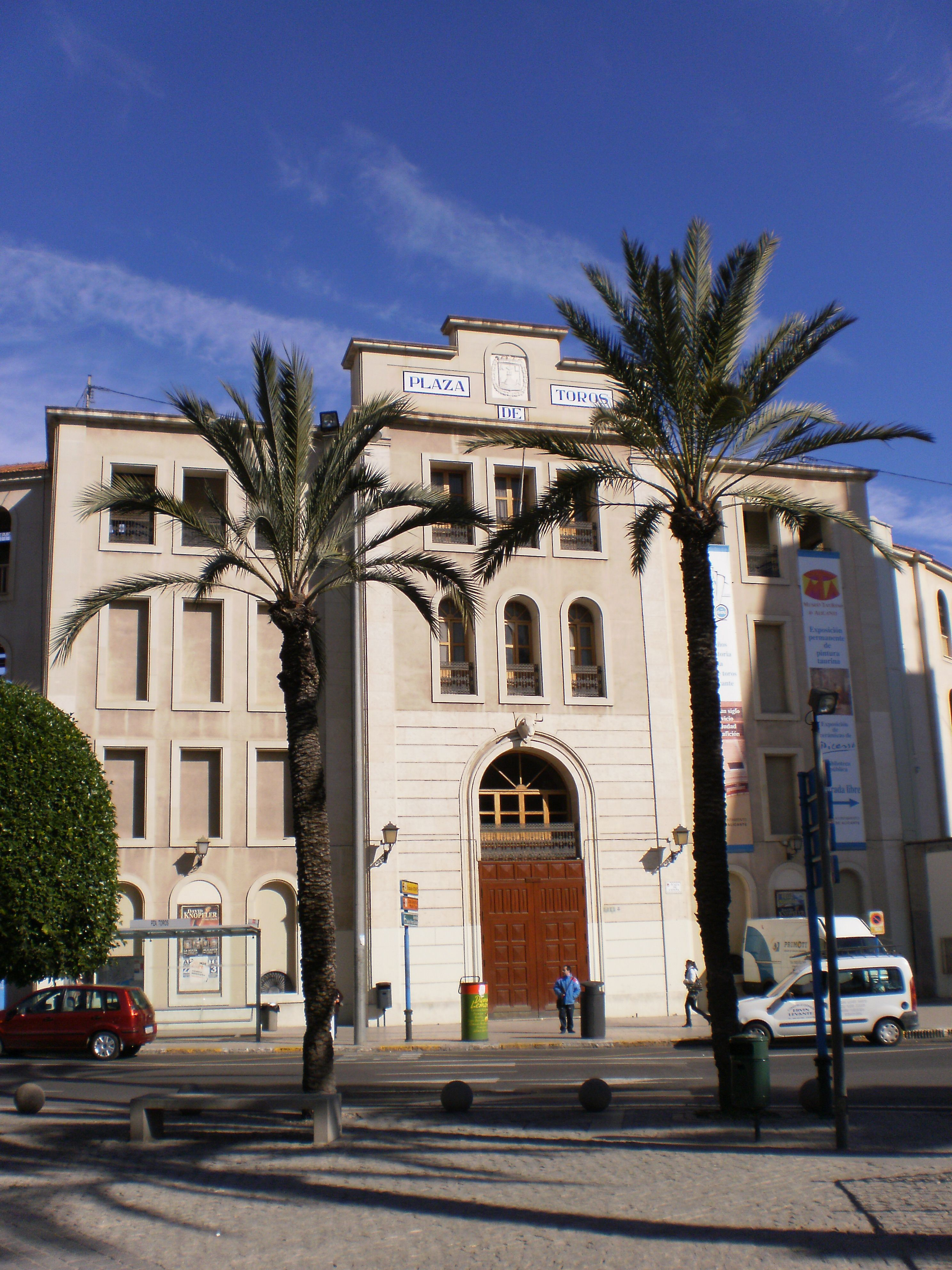 Plaza de Toros, Alicante